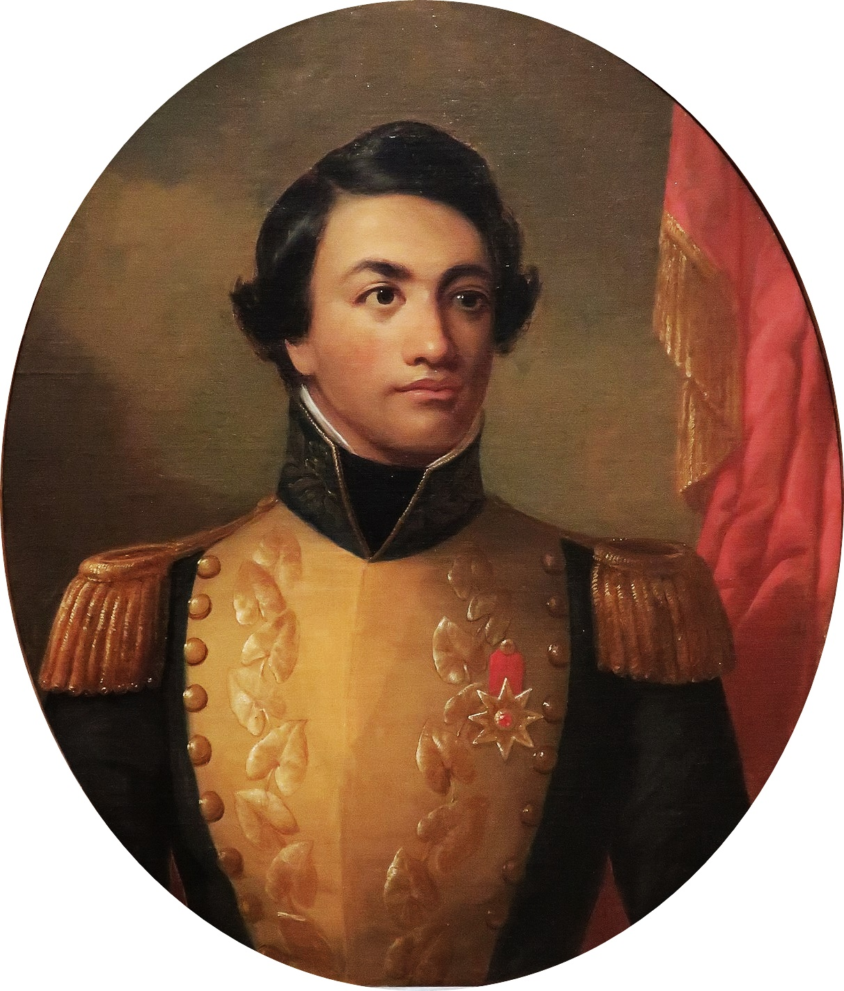 Kamehameha III wearing a uniform of the 1st Prussian guard regiment with the star of the Order of the Red Eagle. Artist unknown, possibly E. Gebauer, ca. 1831. The uniform was part of gifts from King Frederick William III to the Hawaiian monarch, which were given to him when the Prussian ship Prinzess Louisa landed in Hawaii in July of 1831. Painting in Hawaii State Archives Klieger, P. Christiaan (2015) Kamehameha III: He Moʻolelo No Ka Moʻi Lokomaikaʻi, San Francisco: Green Arrow Press, p. 146 ISBN: 978-0-97118-161-8. OCLC: 945797248.